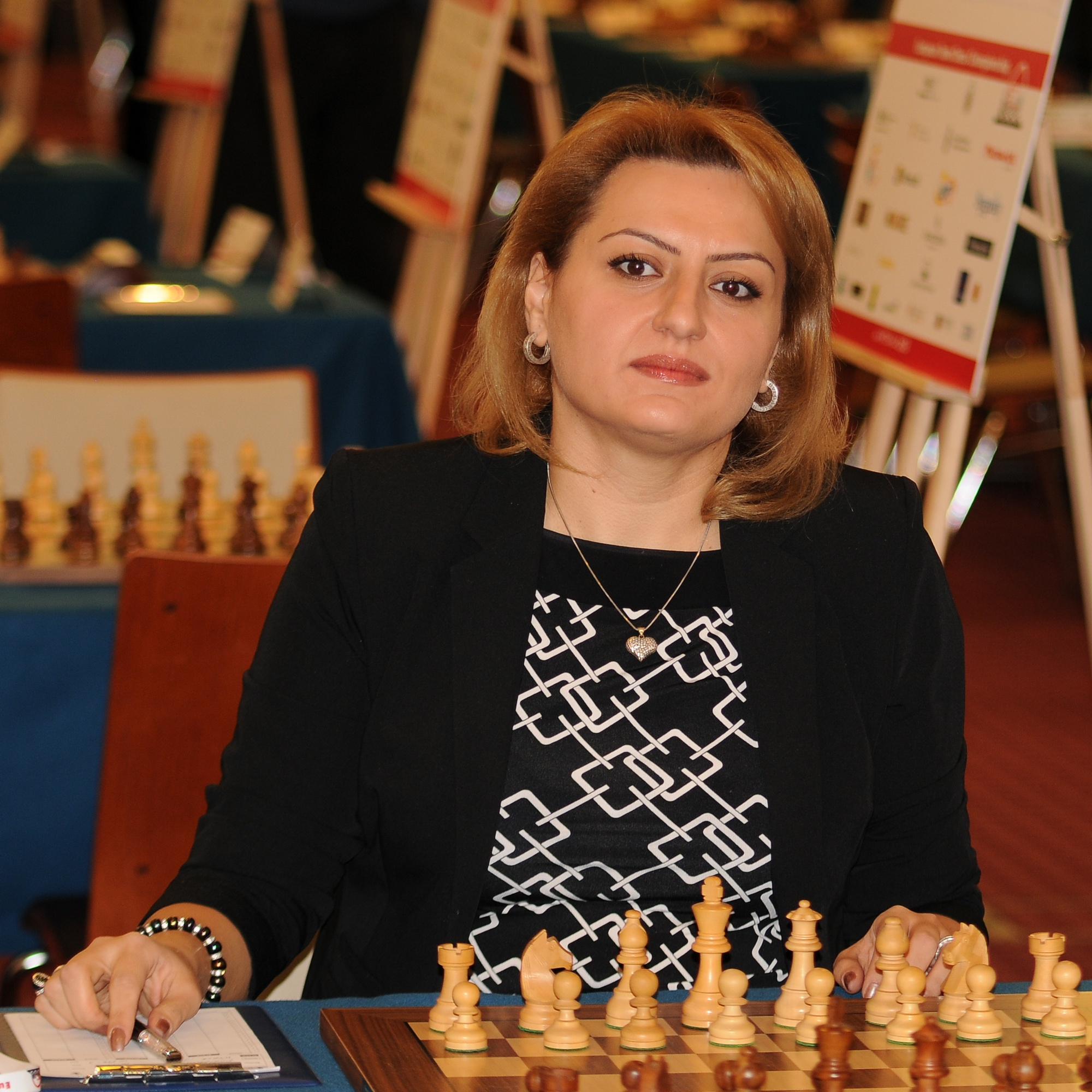 GM Elina Danielian, European Chess Team Championship Warsaw 2013